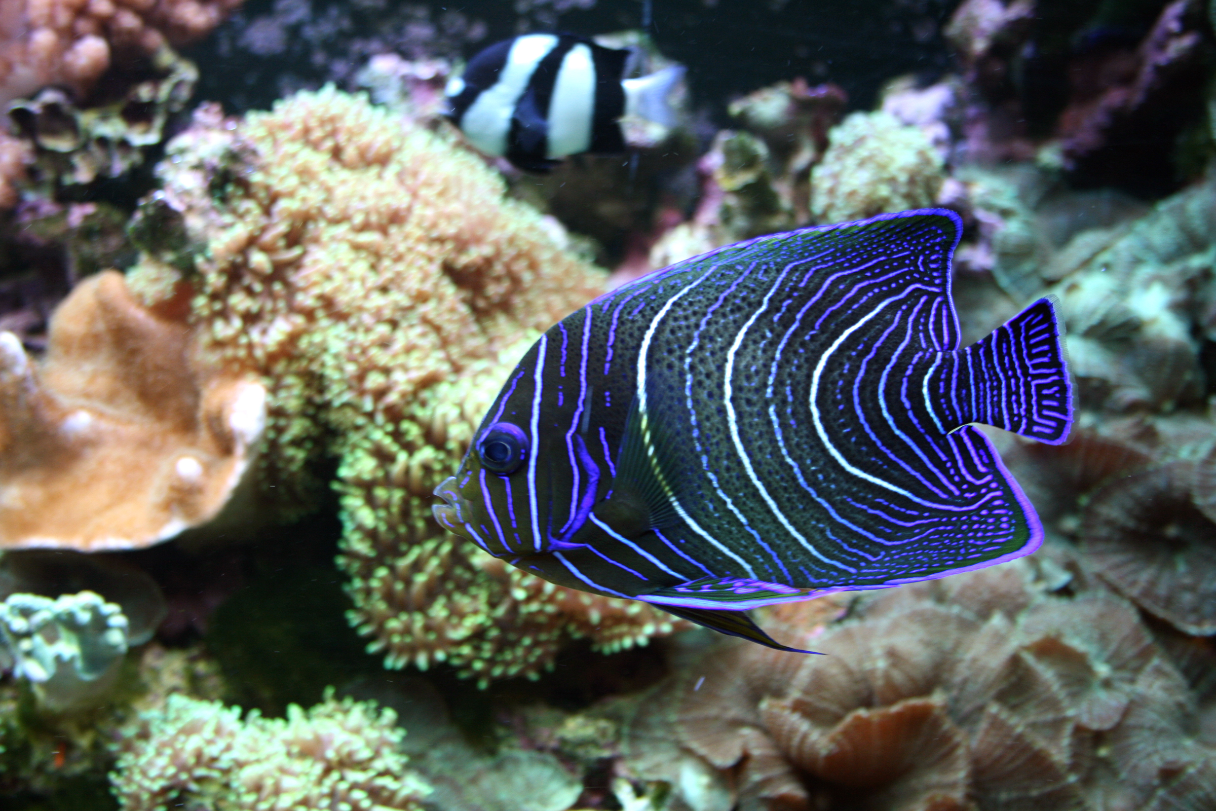 Fish Pomacanthus semicirculatus in Prague sea aquarium, Czech Republic